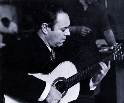 Michael Laucke made 110 trips from Montreal to New York to study with White House resident soloist Valdes-Blain, until Michael finally moved there to be closer to his great mentor. Note for copyright purposes, this photo was taken by either an employee of, or by a photographer hired by Michael Laucke. It is a work for hire, owned and paid for by Michael Laucke. It is hereby licensed under Public Domain Dedication (CC0); ALL RIGHTS WAIVED!